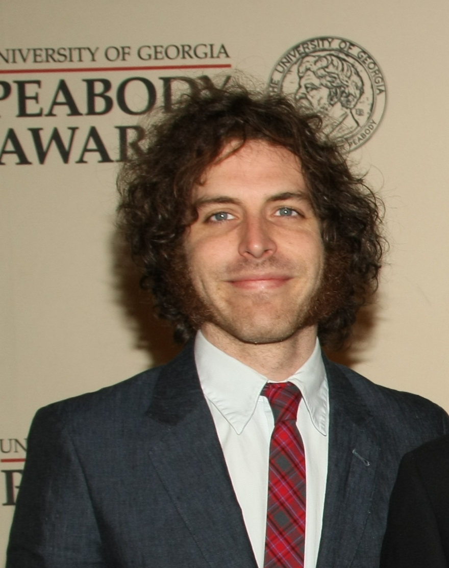 PHOTO CREDIT: ANDERS KRUSBERG / PEABODY AWARDS Jonathan Krisel, Fred Armisen, Carrie Brownstein and Lorne Michaels 71st Annual Peabody Awards Luncheon Waldorf=Astoria Hotel May 21, 2012